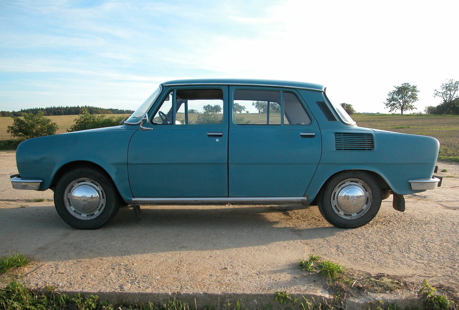 skoda 100L, 1974